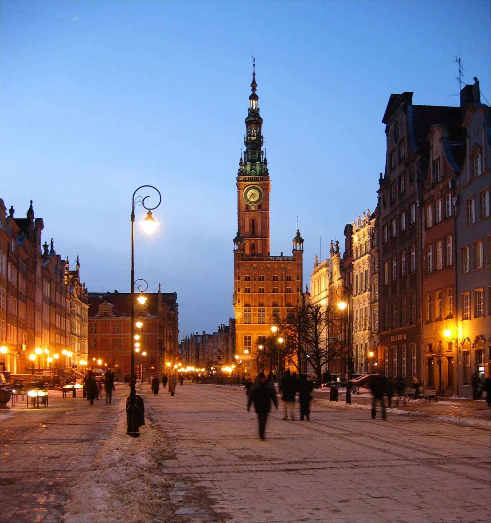 Long Market Square in the Main Town of Gdańsk.